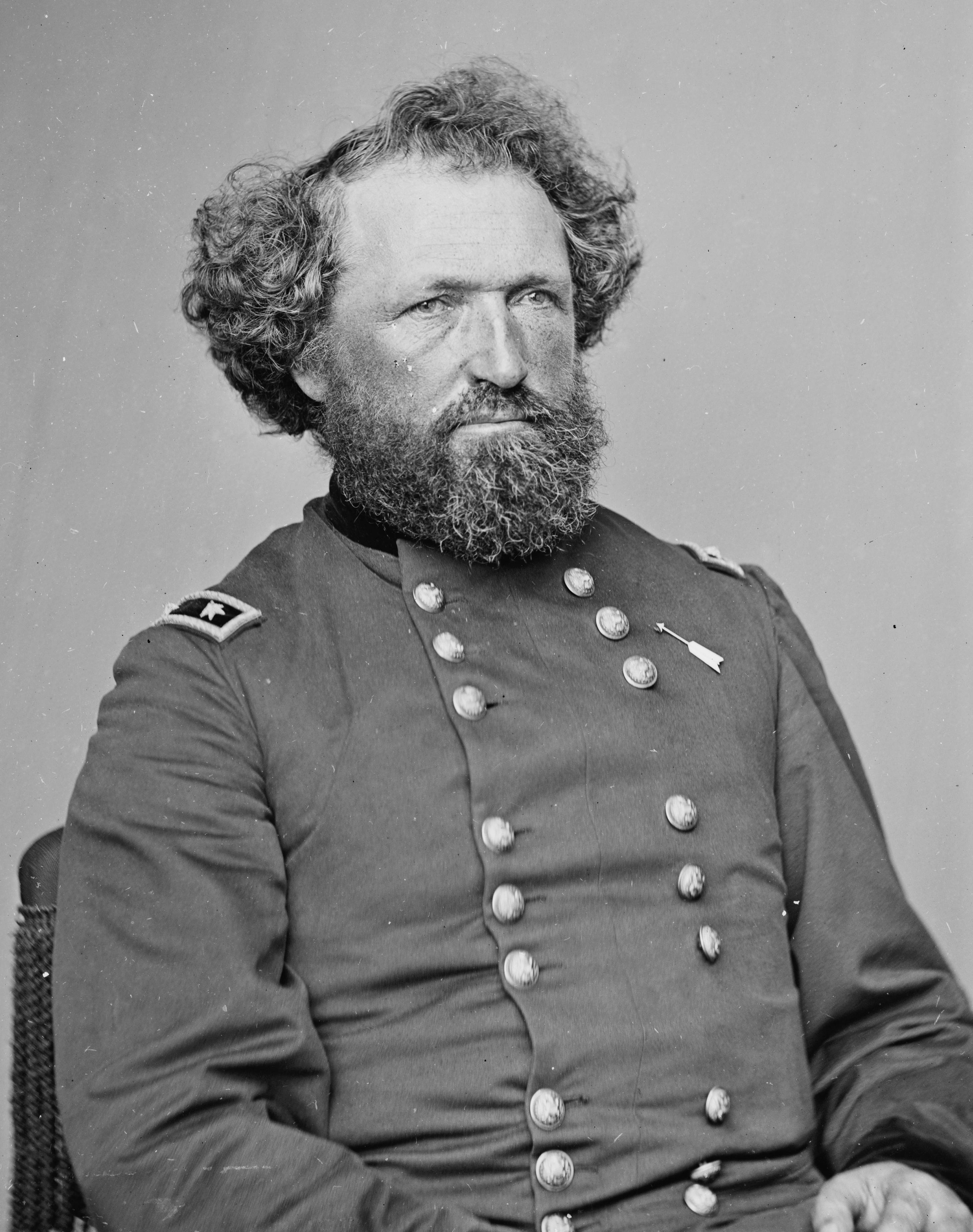 Mortimer Dormer Leggett. Library of Congress description: "Portrait of Maj. Gen. (as of Aug. 21, 1865) Mortimer D. Leggett, officer of the Federal Army"